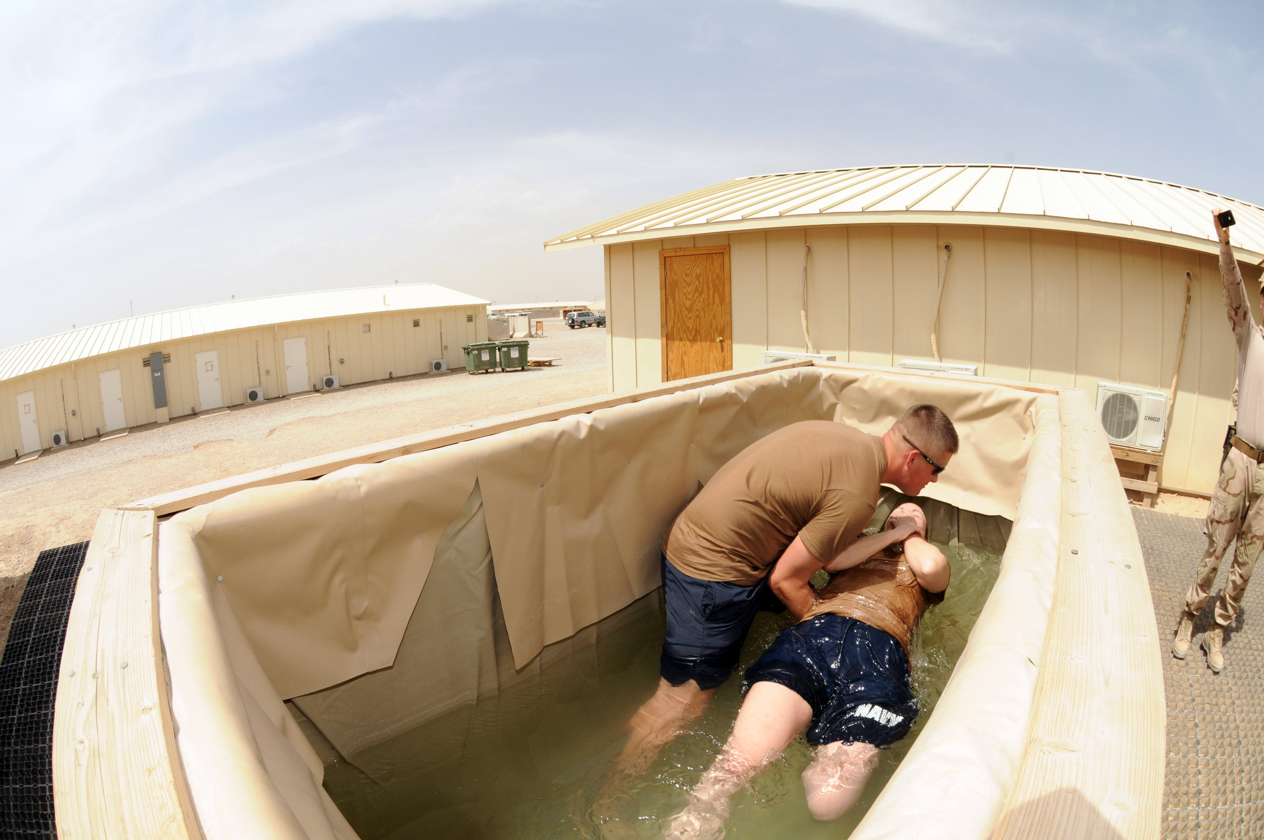 Builder 1st Class Ina M. Baca, from Eustis, Fla., assigned to Naval Mobile Construction Battalion 11, is submerged in water by Lt. j.g. Chaplain Brian E. Myers, from New London, Conn., in a ceremony of baptism on Easter Sunday at the Camp Leatherneck Chapel. Homeported in Gulfport, Miss., NMCB-11 is deployed to Afghanistan to conduct general, mobility, survivability engineering operations, defensive operations, Afghan National Army partnering and detachment of units in combined/joint operations area - Afghanistan in order to enable the neutralization of the insurgency and support improved governance and stability operations. Naval Mobile Construction Battalion 11 Photo by Petty Officer 1st Class Jonathan Carmichael Date Taken:04.08.2012 Location:HELMAND PROVINCE, AF Read more